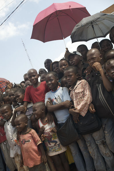 Waiting for Malaria Nets